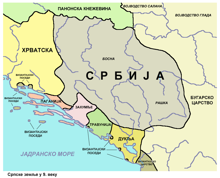 Serb lands in the 9th century - Serbian language Cyrillic script version.